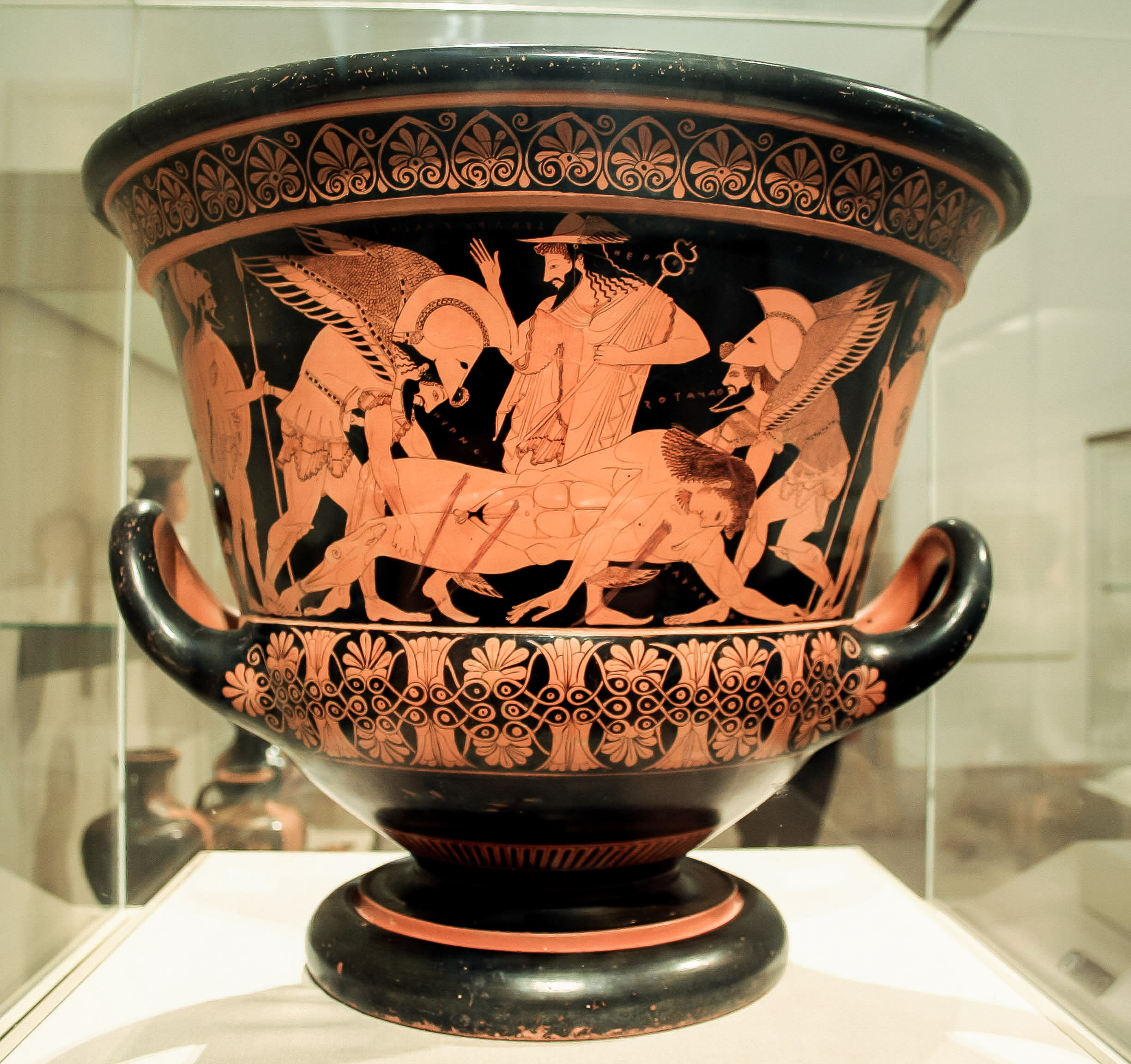 Euphronios Krater. Signed by Euxitheos, as potter ; signed by Euphronios, as painter. Greek, Attic Krater (ca. 515 BC) Lent by the Republic of Italy. New York, Metropolitan Museum of Art.